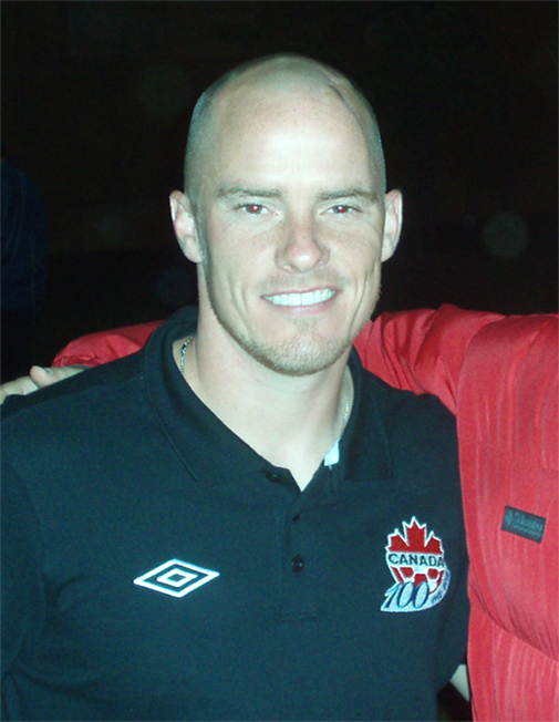 Iain Hume with fans after the Canada vs. Honduras World Cup qualifier in 2012.